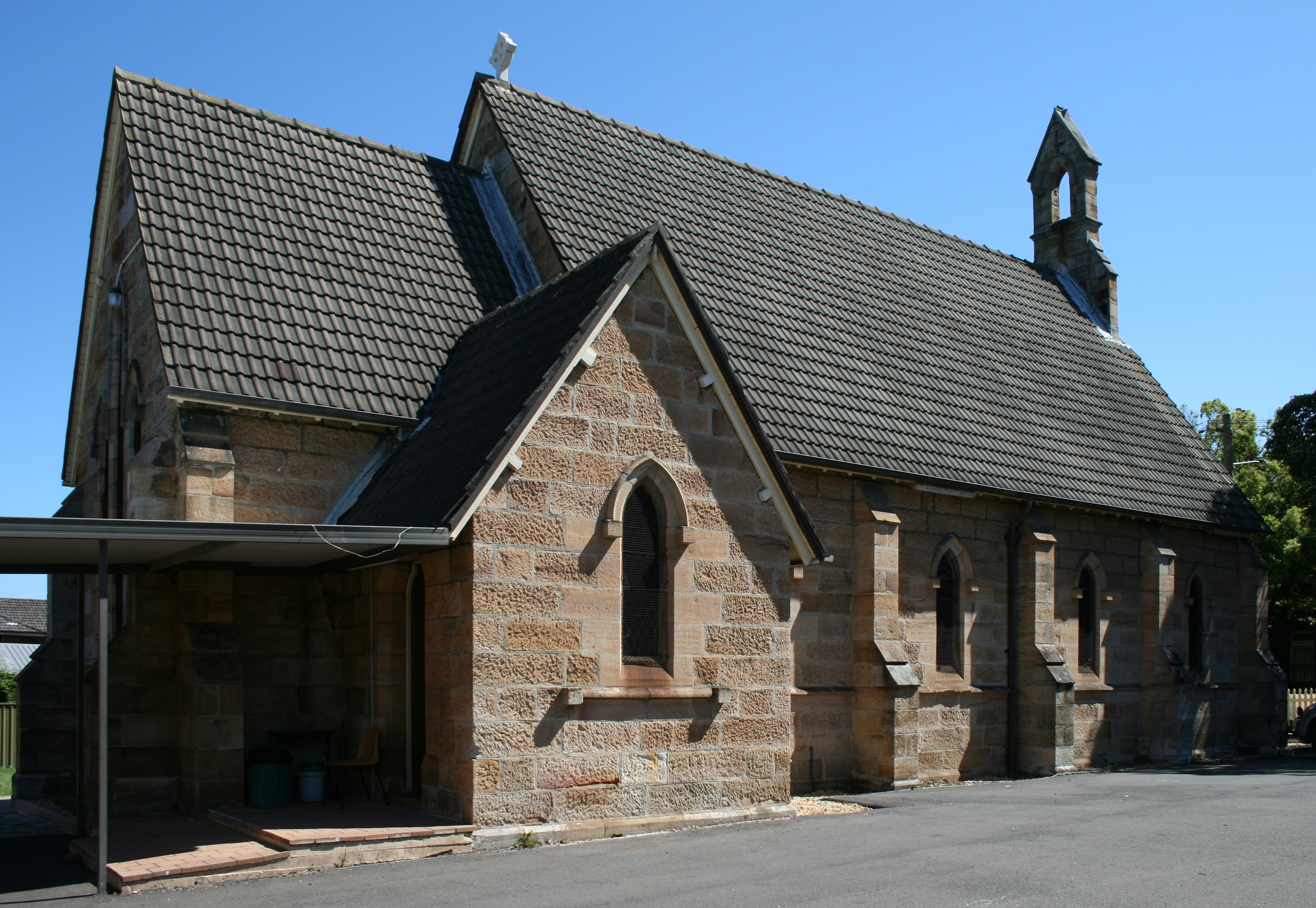 St Paul's Anglican Church in Canterbury, New South Wales (NSW), Australia.